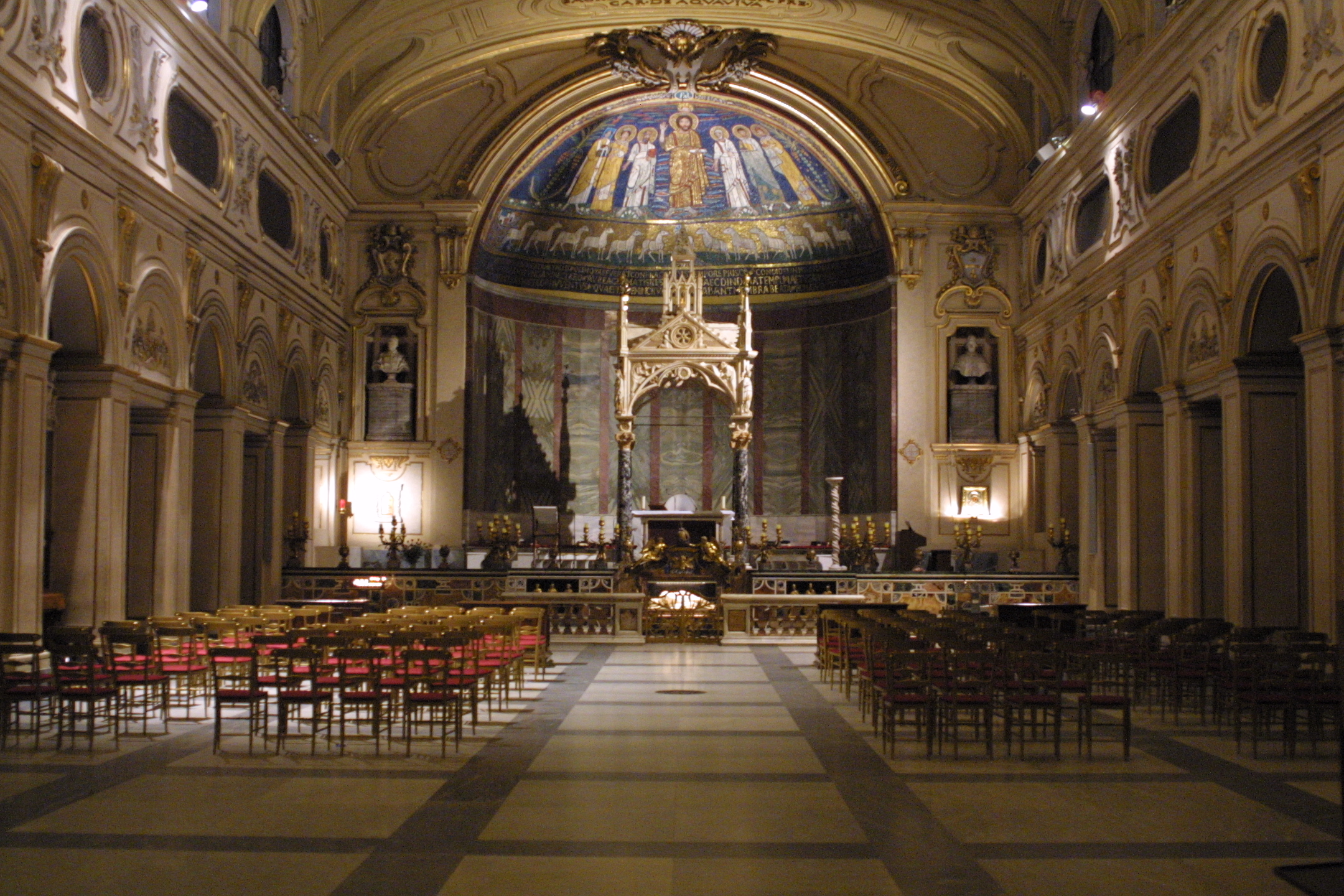 Interior night shot of Santa Maria in Trastevere, empty.